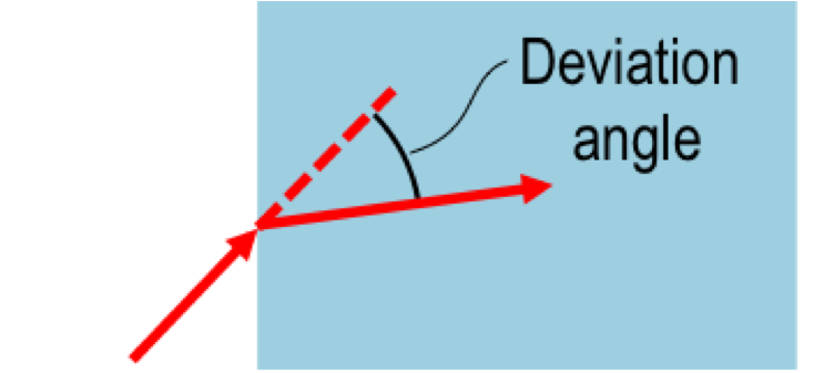 Shows how a beam is deflected as it enters a medium, and defines the deviation angle. [1]